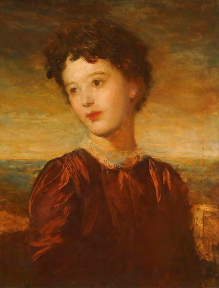 c1880 portrait of Laura Troubridge (Laura Gurney, Lady Troubridge)